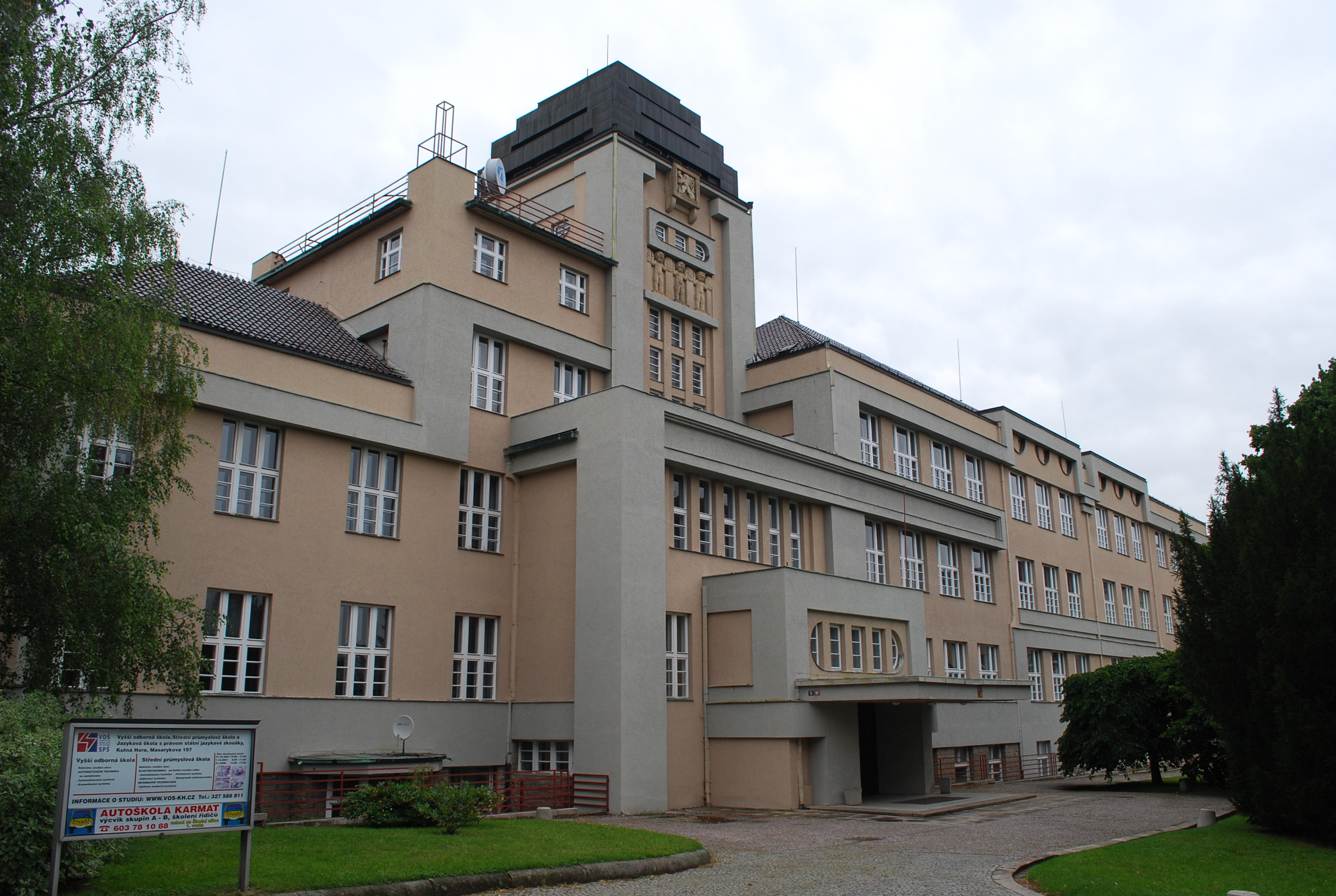 College in Kutna Hora